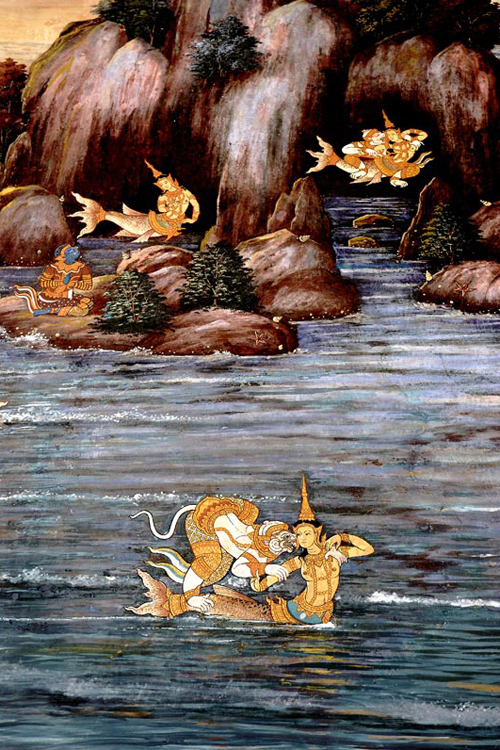 Hanuman and Mermaid Suvannamaccha. Photocopy of a mural painting in Wat Phra Kaew, Bangkok.